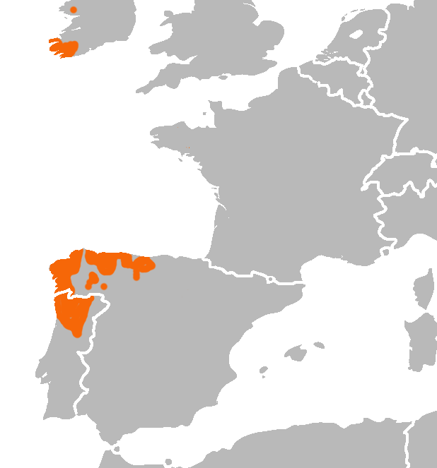 Approximate distribution map of Geomalacus maculosus.